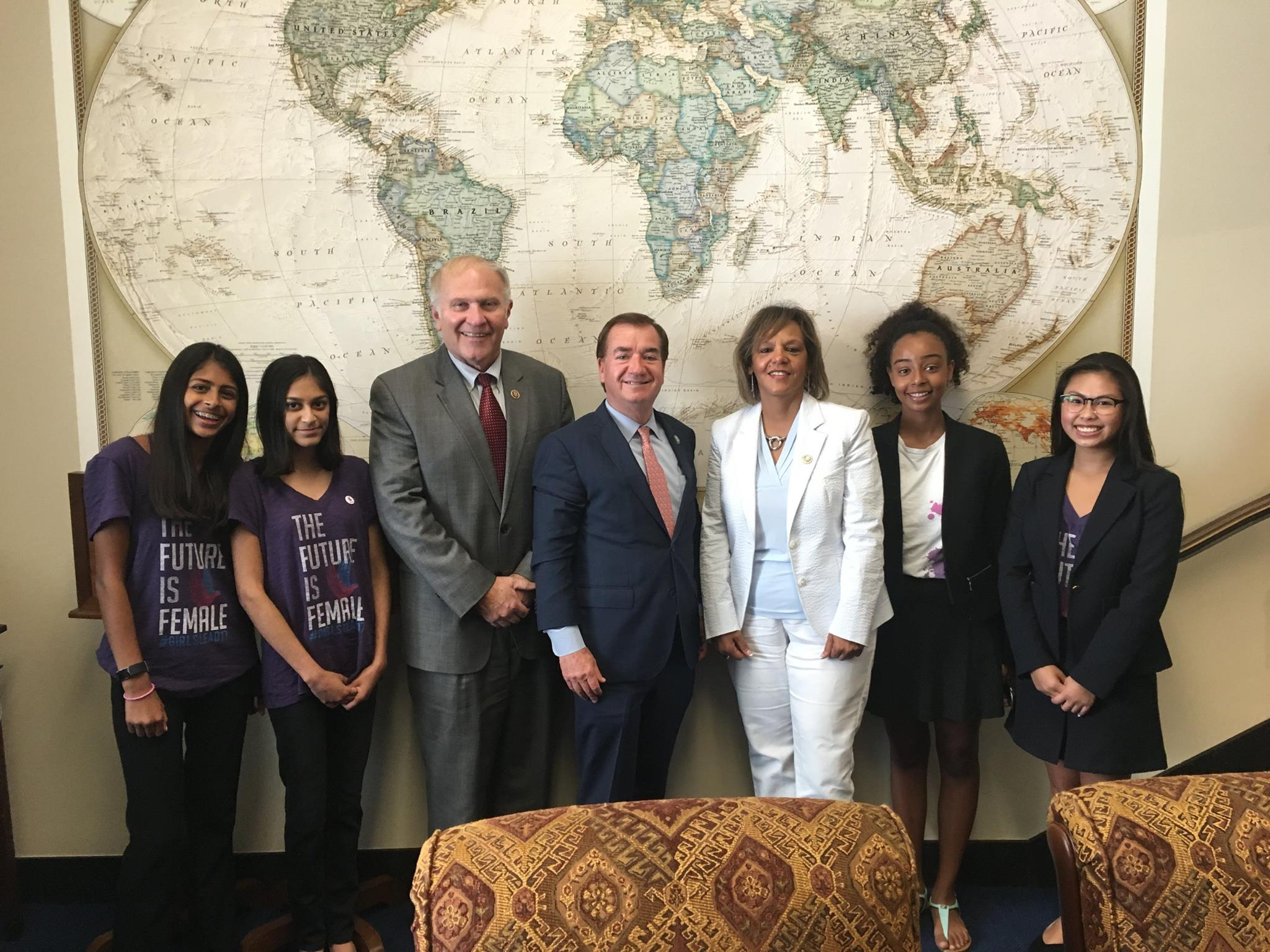 "Earlier this year, Rep. Steve Chabot and I introduced legislation to help educate more girls. Today, this bill passed the Foreign Affairs Committee with the support of some amazing young women leading the #GirlsUp campaign. #Support2408"